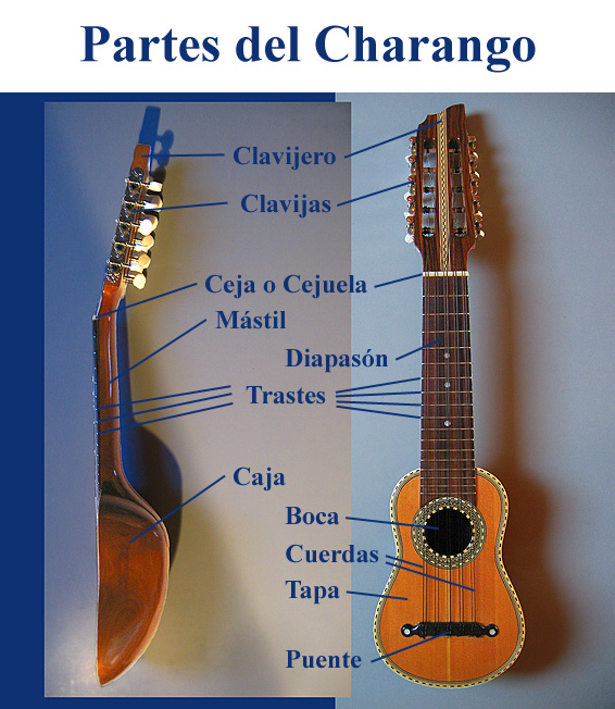 Designation of charango's parts.